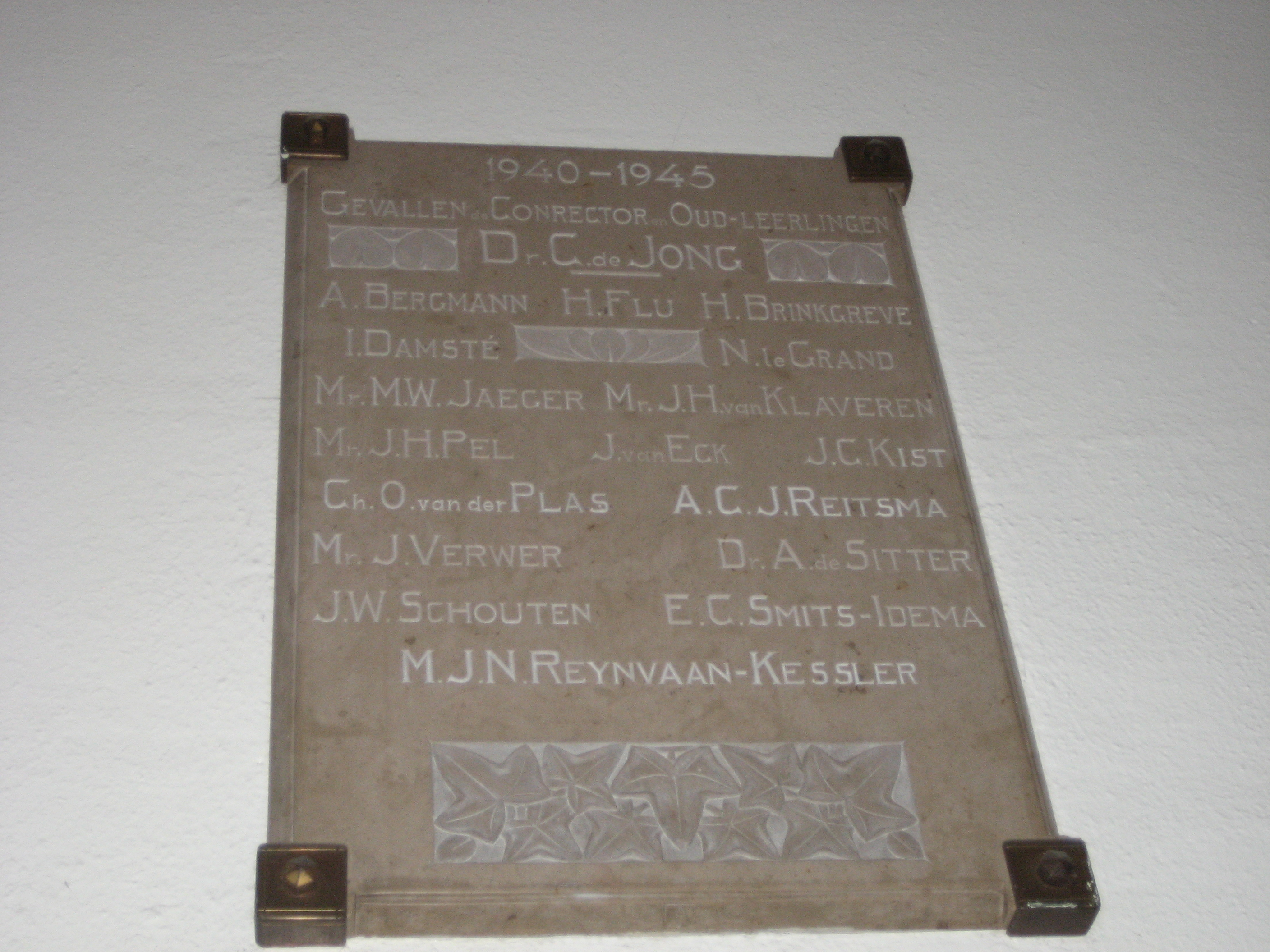 War memorial: Plaque in Stedelijk Gymnasium (School in Leiden) to commemorate teachers and pupils who died in WW II. One of them was Operation Silbertanne victim Christiaan de Jong, vice-director of the school